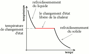 Temperature curve during solidification, passive cooling The product is heated until it melts, then it is let under for a passive cooling. The temperature is recorded vs. time. We can note that the temperature is constant during the solidification: the ordering of atoms produces heat that compensate the loss by cooling. For simplicity reason, we omitted (supercooling)